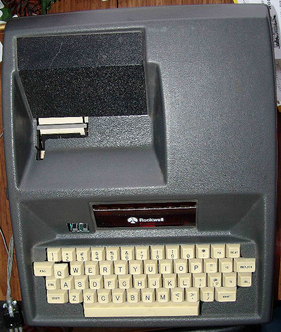 AIM-65 Computer